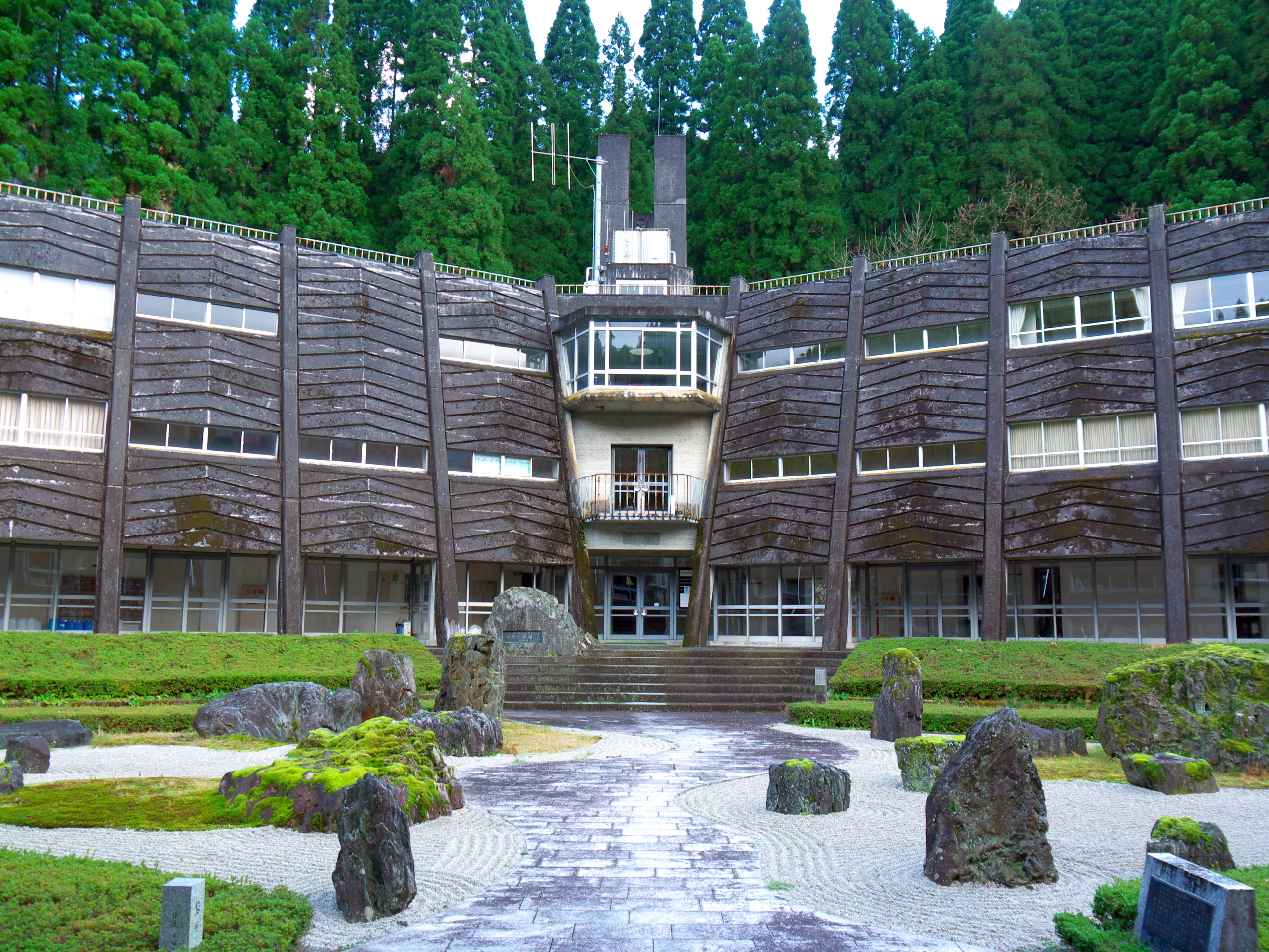 Plaza Saji, Tottori, Tottori prefecture